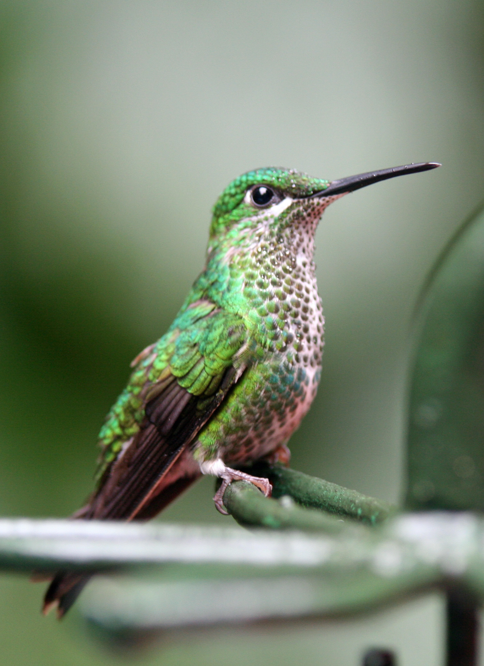 green crowned brilliant